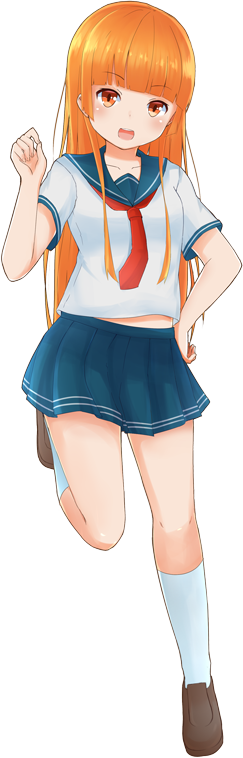 Internet Friendly Media Encoder mascot (Ifme-chan) drawn ray-en